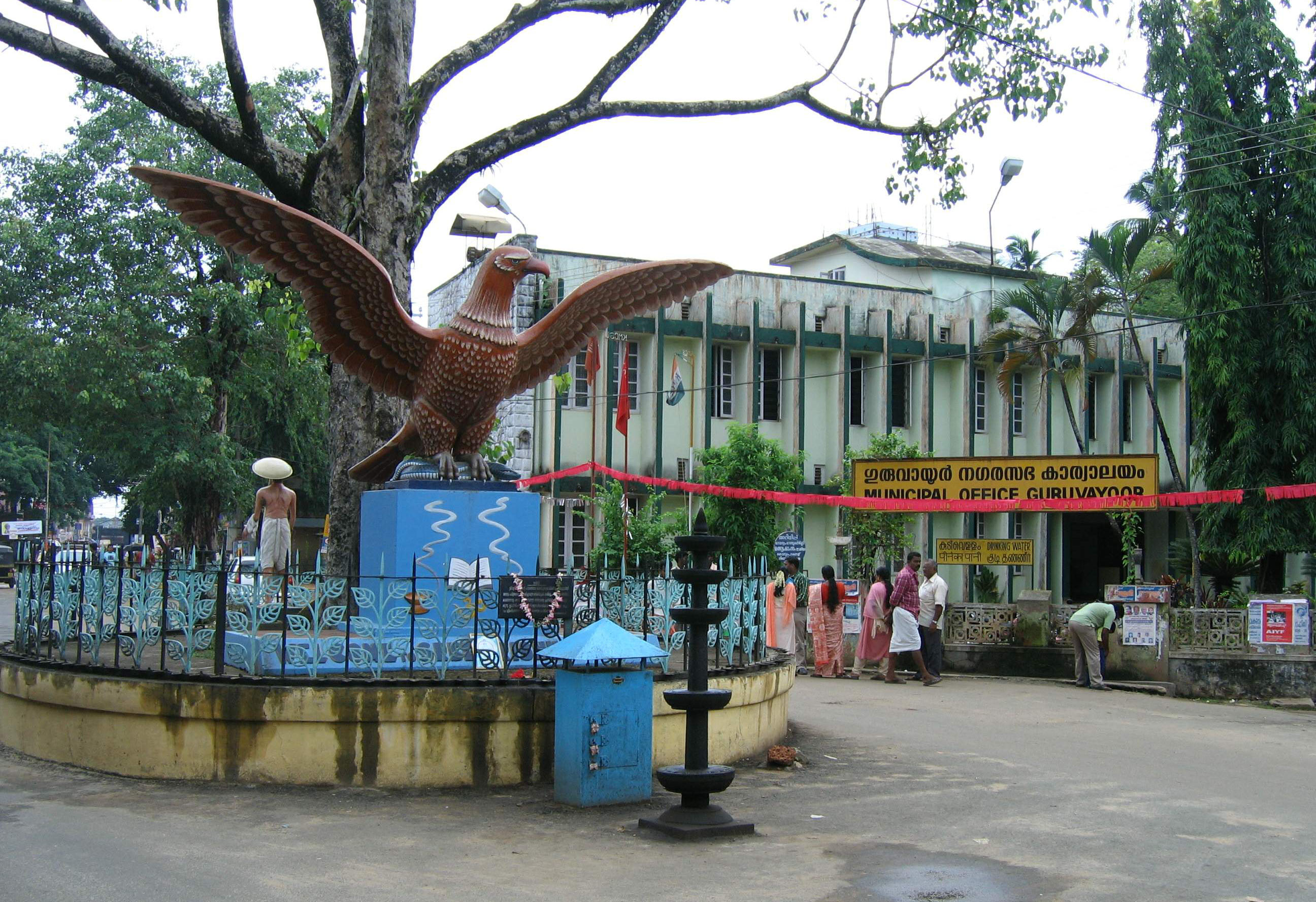 Guruvayur, Garuda statue